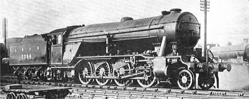 Typical British Freight Locomotives "Mikado" (2-8-2) Freight Locomotive, LNER Fitted with "Booster" gear to trailing engine wheels LNER Class P1